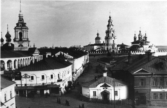 View on the Dormition Cathedral in Kostroma